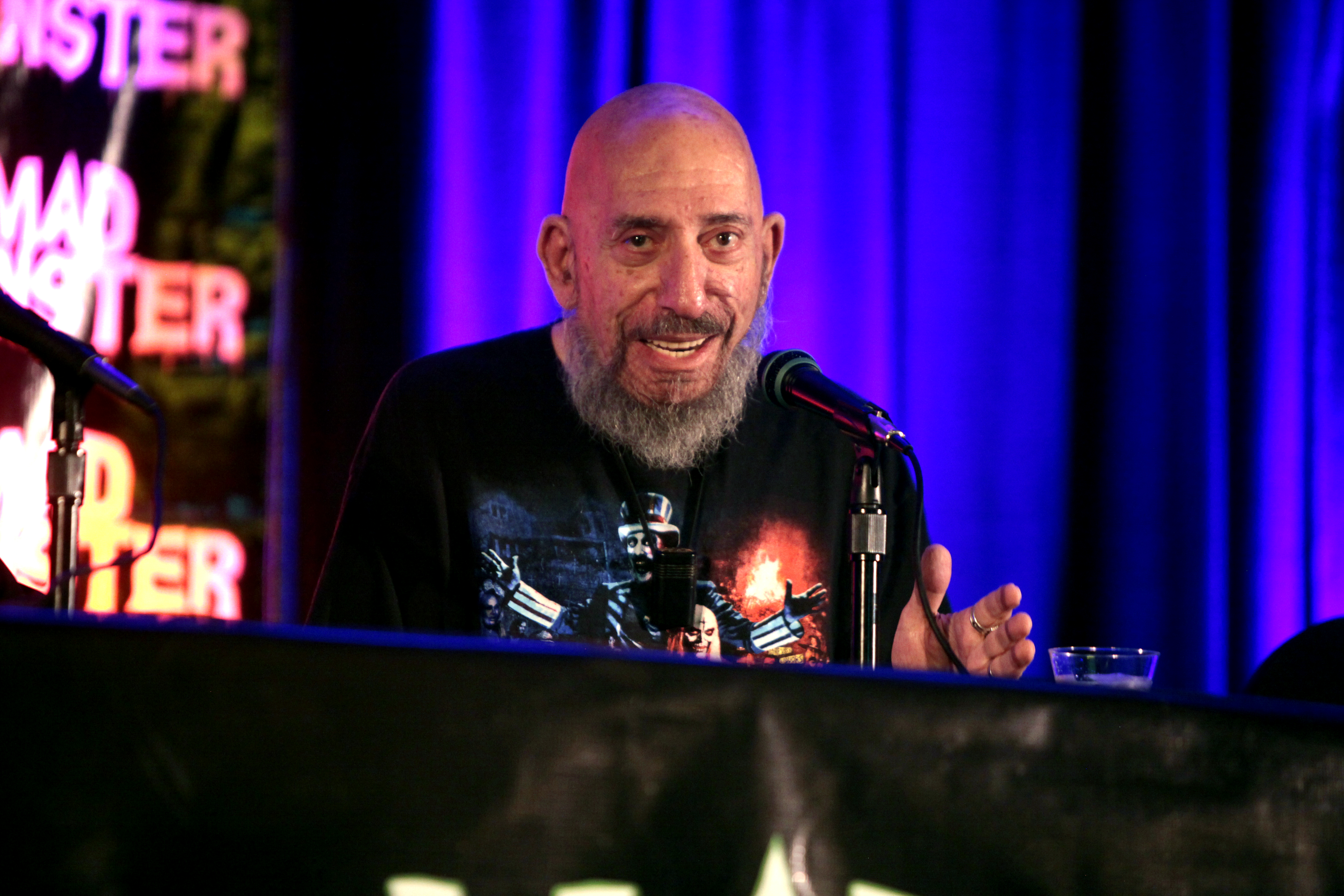 Sid Haig speaking at the 2016 Mad Monster Arizona at the We-Ko-Pa Resort & Conference Center in Scottsdale, Arizona.